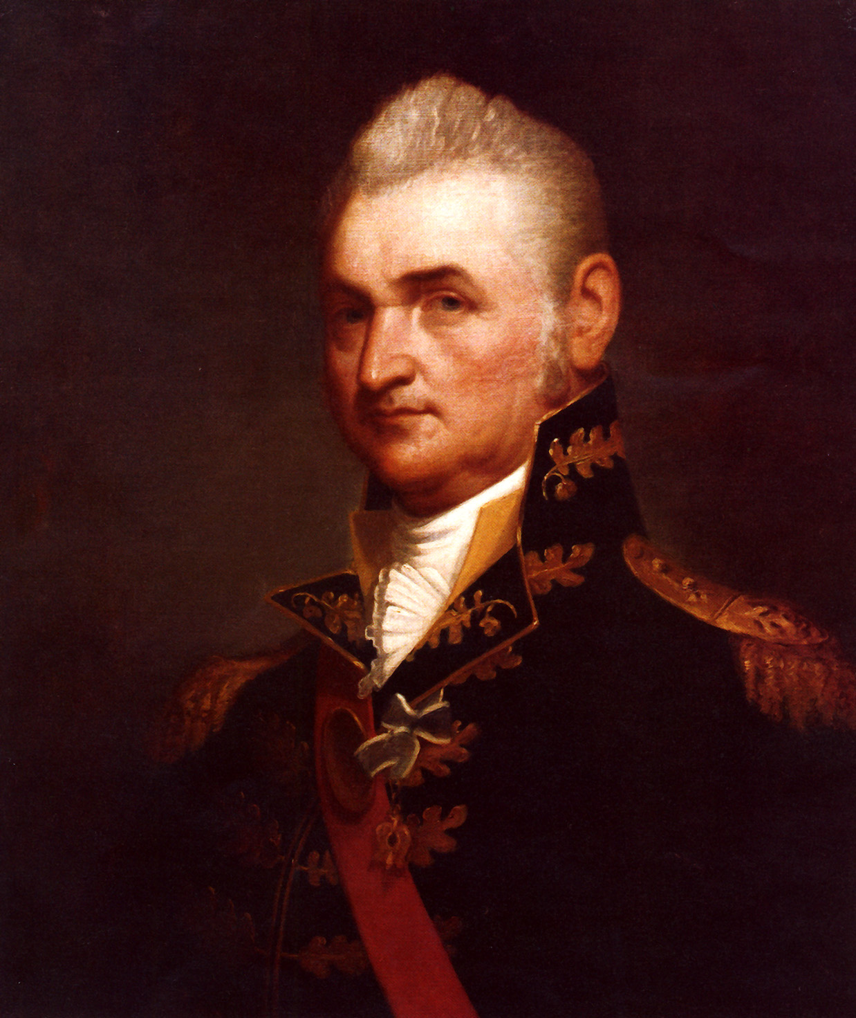 Walter M. Brackett (1823-1919), the younger brother of sculptor Edward A. Brackett, was born in Unity, Maine. He spent most of his professional career in Boston, Massachusetts, exhibiting his work at the Boston Athenaeum, the Apollo Association, and the National Academy of Design. He was one of the artists engaged by Secretary of War William W. Belknap in the early 1870s to execute portraits of the line of succession of the secretaries, and he painted the portraits of Timothy Pickering, Samuel Dexter, William Eustis, and Henry Dearborn, all prominent residents of his native state. His portrait of Maj. Gen. Henry Dearborn serves the dual purpose of representing a senior Army official who was both the senior officer and senior civilian, and is reproduced from the Army Art Collection.